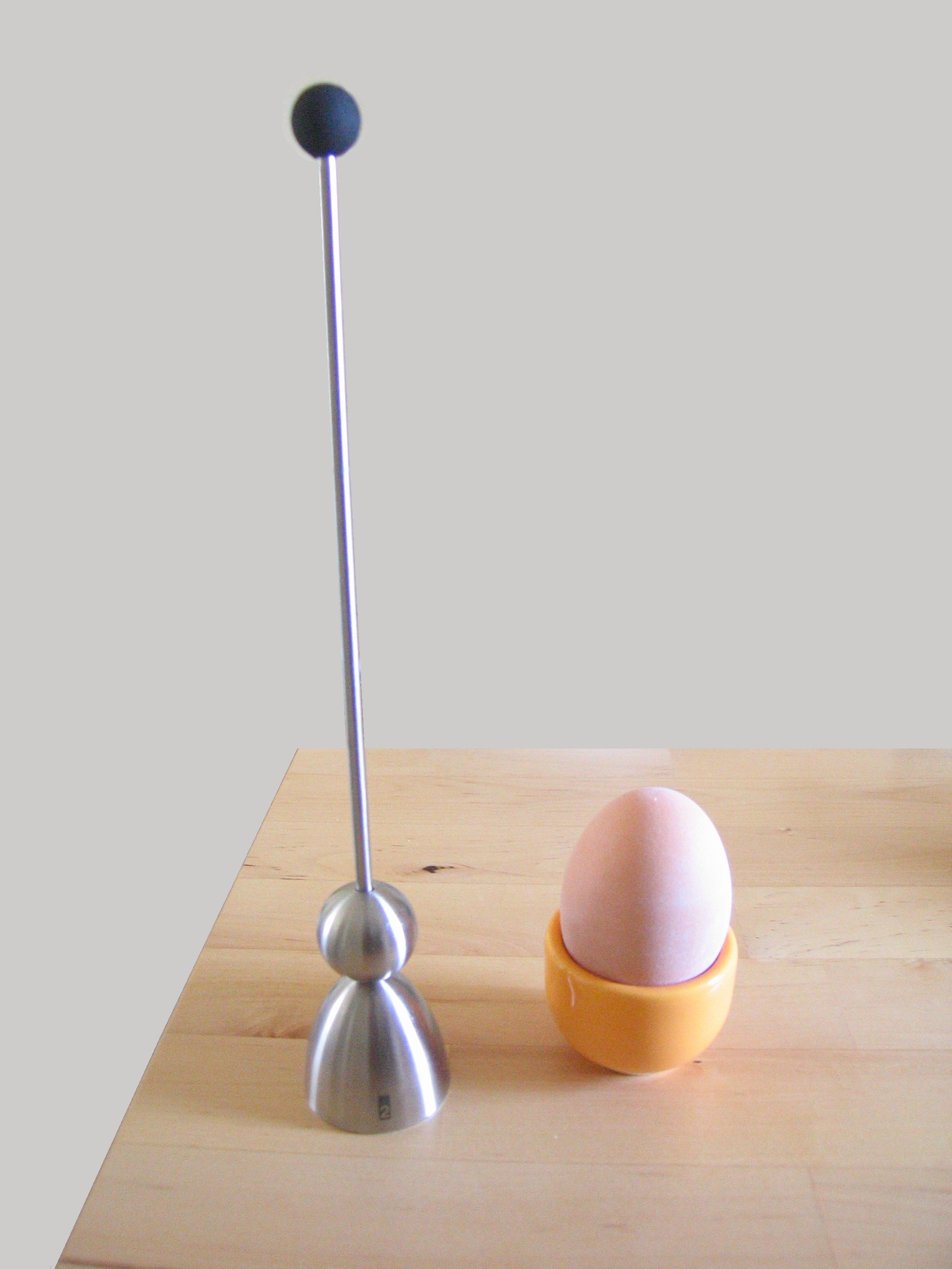 It's an instrument used to help marking the top of cooked or semi cooked hen eggs -maybe other poultry eggs too- so they can be easily cut and opened to be eaten.